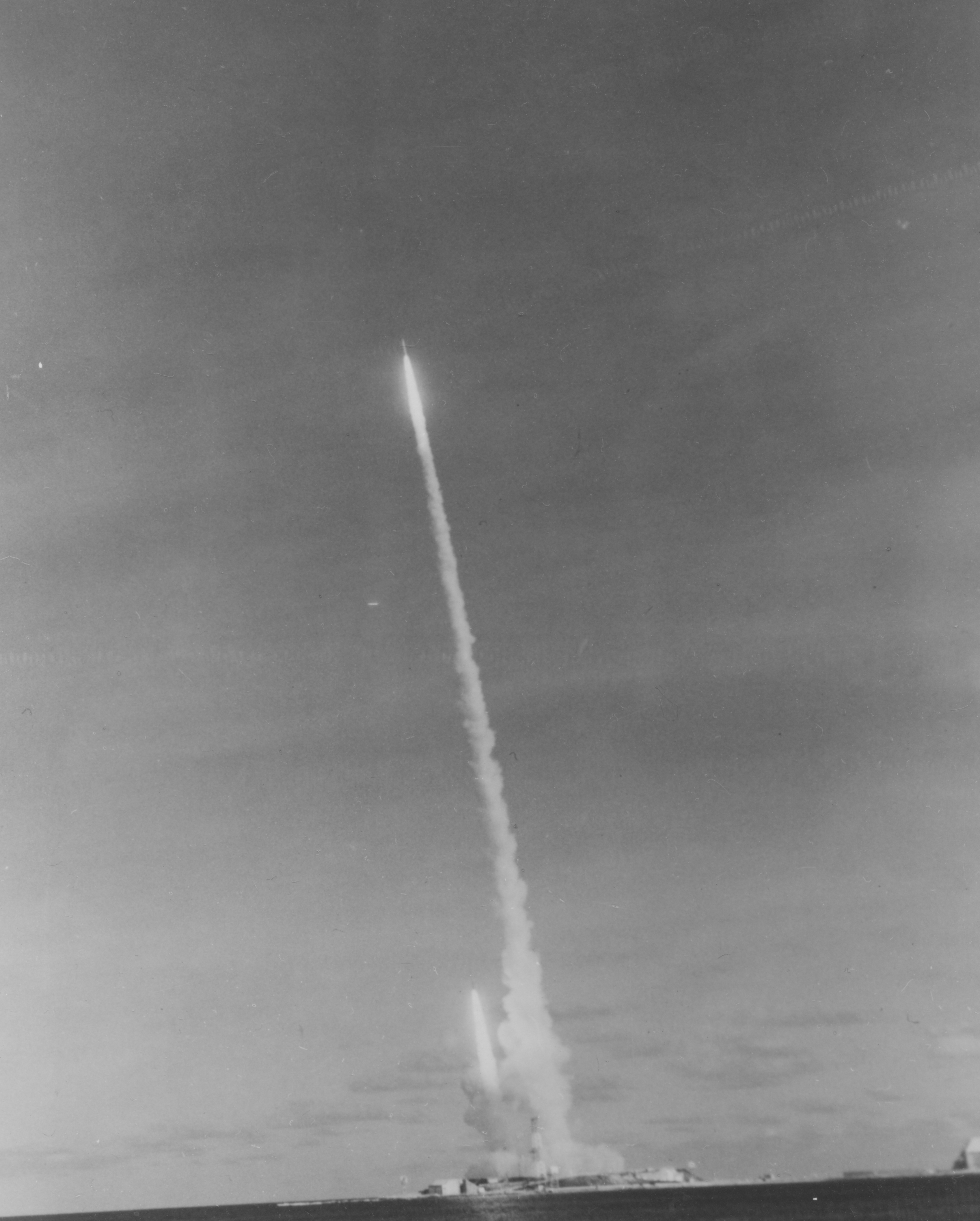 Two Spartans launched - one intercepted ICBM Nosecone, other hit a fixed point in space - 11 Jan 71.